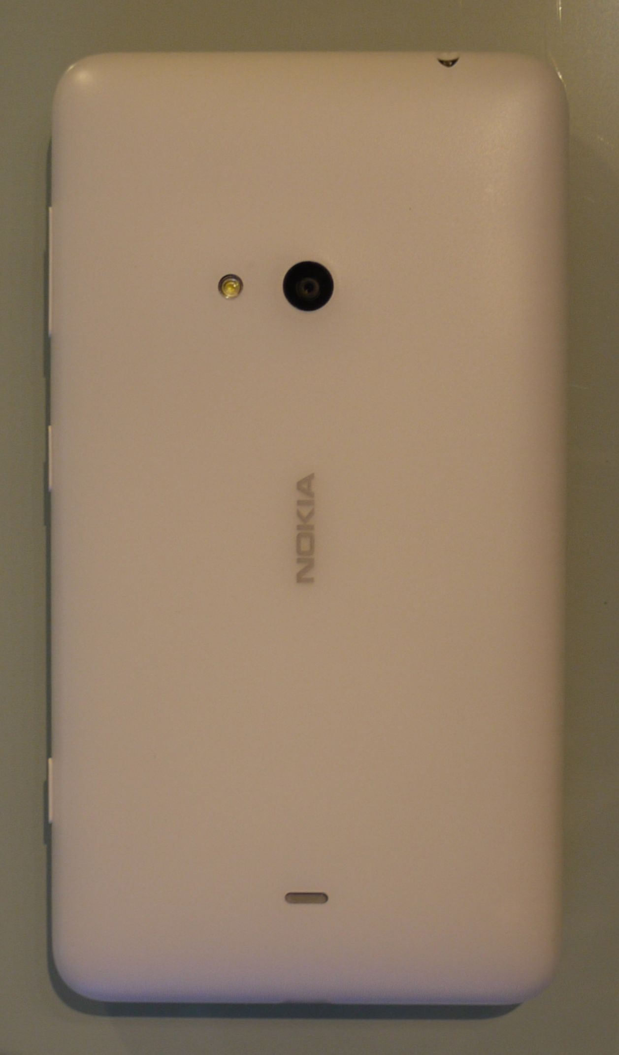 Backside of a Nokia Lumia 625 smartphone